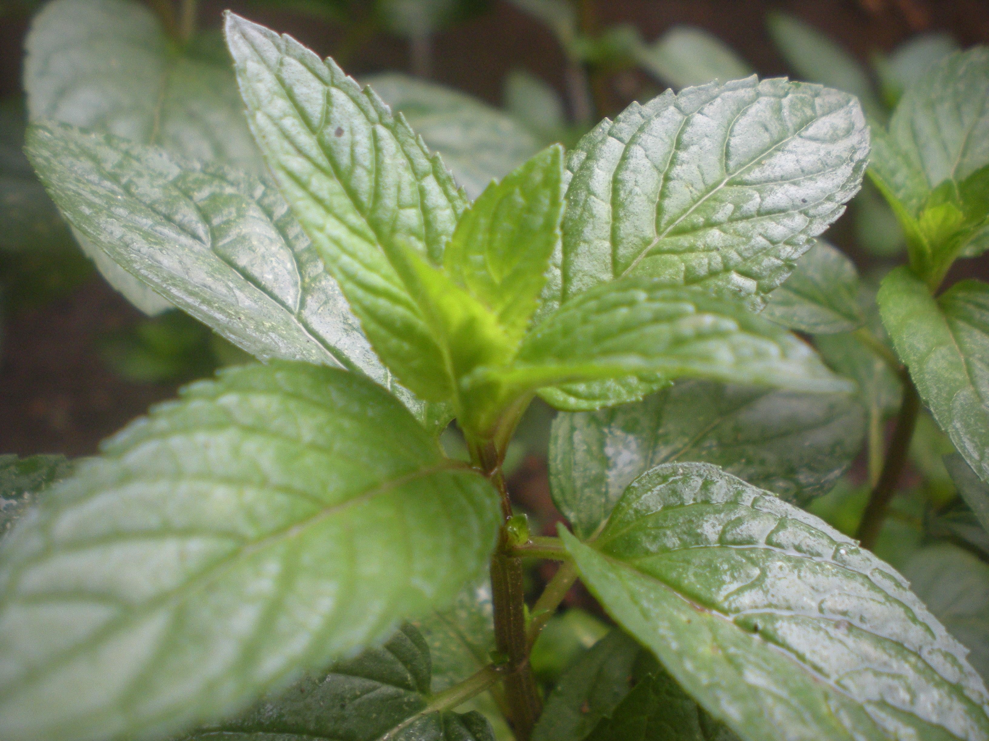 A peppermint flower pot on the terrace in New Belgrade, Serbia. Picture was taken with an amateur photo-camera, but by a skilled photographer. It used Macro mode to improve the appearance of the image.